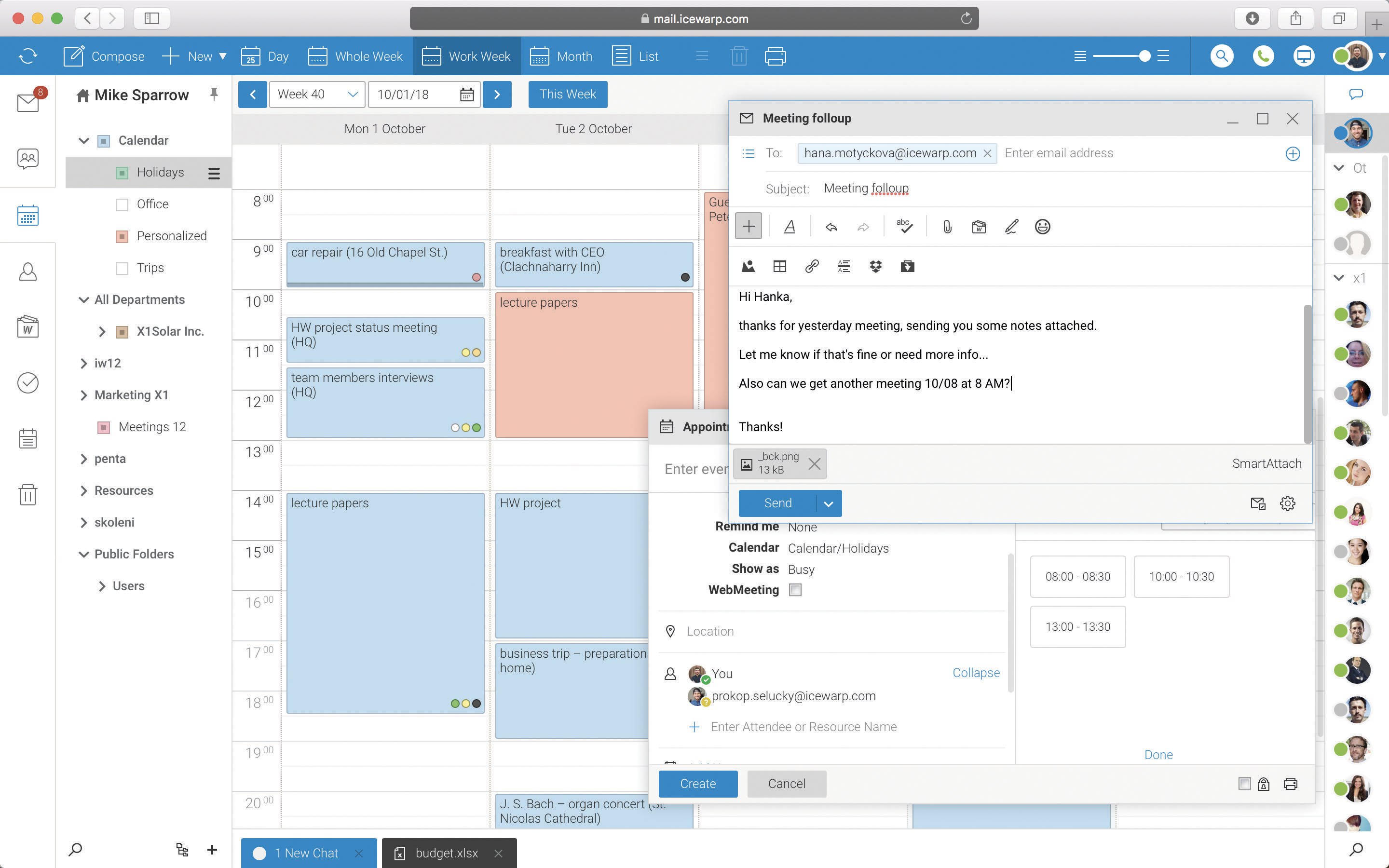 Single-screen interface with email, calendar, messenger.